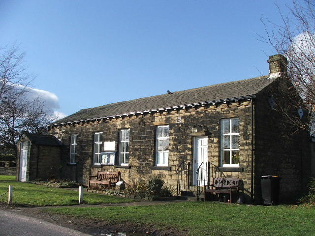 Lancasterian School Room at Moor Top. Moor Top was a small farming and weaving community with an inn and adjacent blacksmiths forge when, in 1813, Joseph Lancaster, a young Quaker, founded one of his many schools there, beside the old pack-horse trail. The original building became dilapidated and was rebuilt in 1875 and further extended in 1902. On 2nd February 1950 a fire ravaged the interior of the building. Trustees and local people worked extremely hard to raise funds and the schoolroom was restored and in use again ten months later. It is a very well used building and services are still held there twice a month.